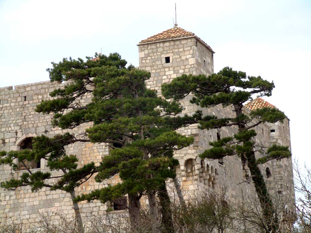 Fortress Nehaj, Senj, Croatia. Home of the Uskoci pirates, 16th century, south east tower. K. Korlević